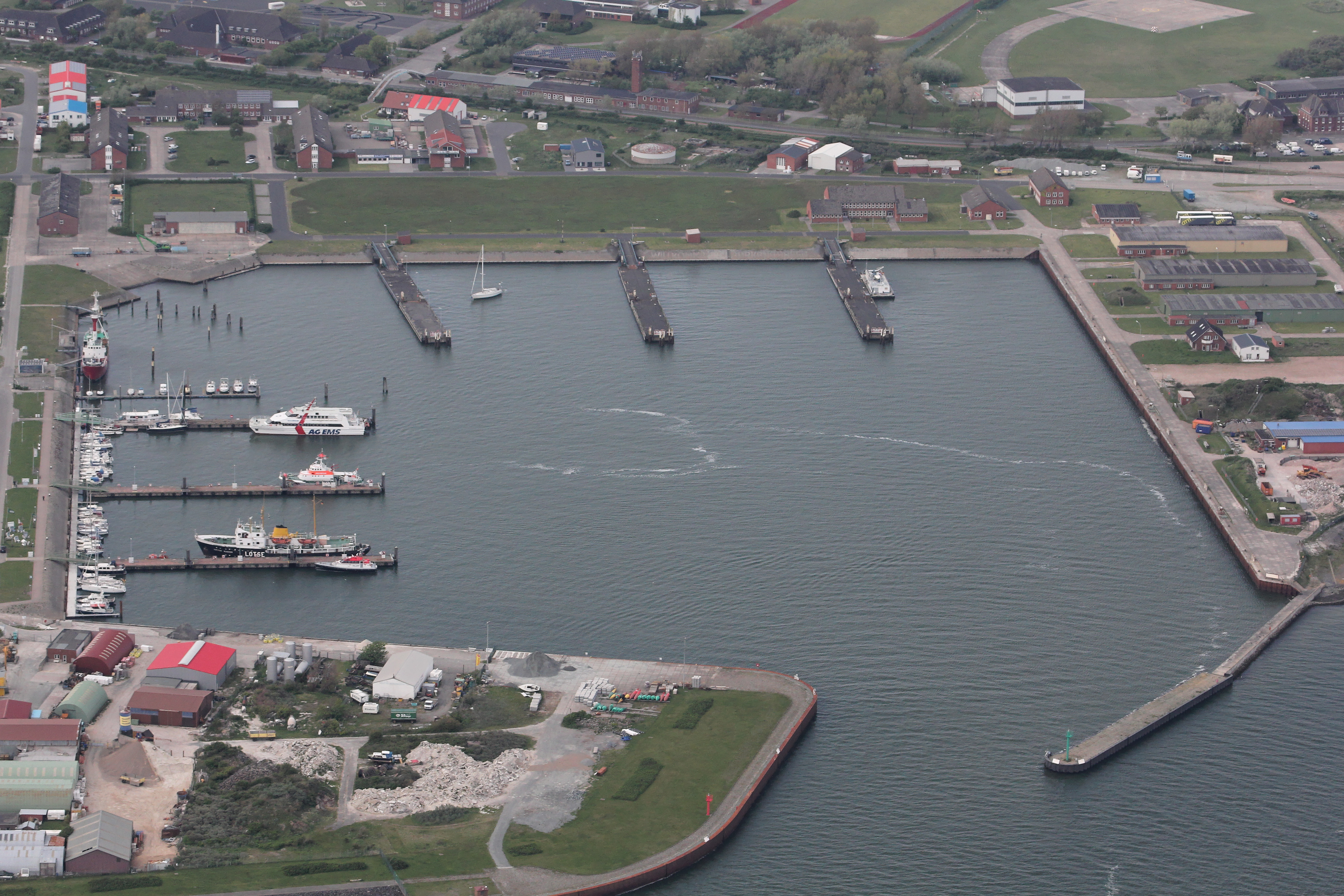 A aerial photograph of Borkum harbour, former naval base.